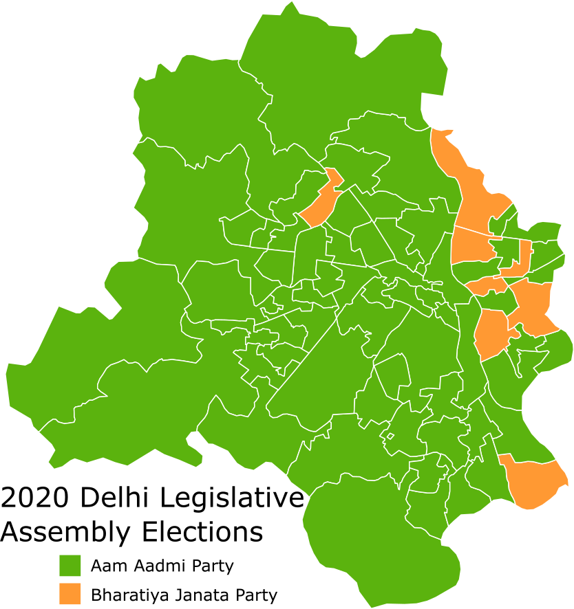 Map showing the constituencies won by Parties in Delhi general election 2020